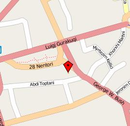 TID Tower location This map may be incomplete, and may contain errors. Don't rely solely on it for navigation.